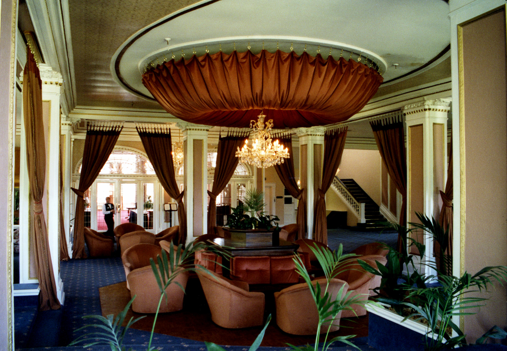 The Lobby, Chateau Tongariro